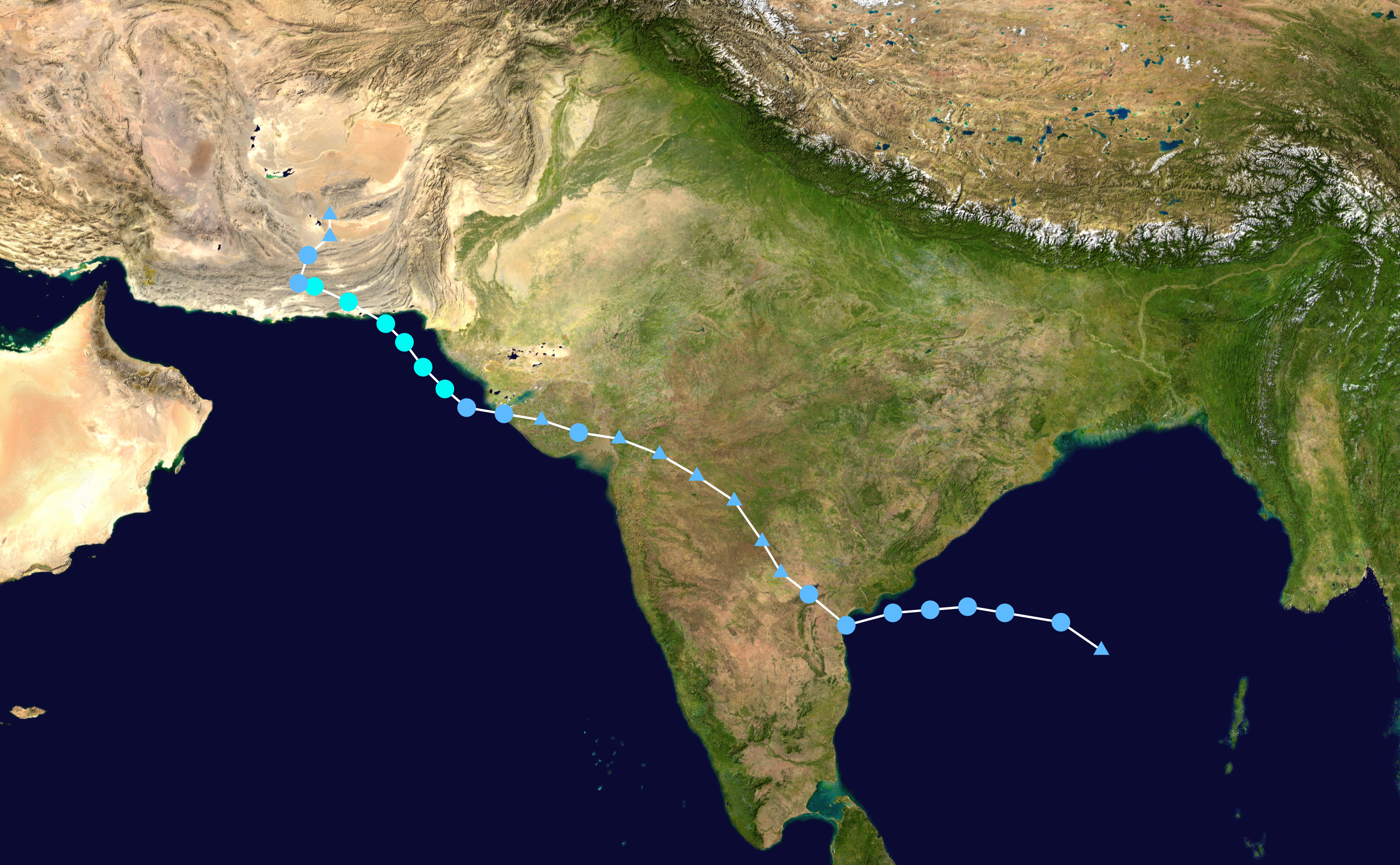 Track map of Cyclonic Storm Yemyin of the 2007 North Indian Ocean cyclone season. The points show the location of the storm at 6-hour intervals. The colour represents the storm's maximum sustained wind speeds as classified in the Saffir–Simpson scale (see below), and the shape of the data points represent the nature of the storm, according to the legend below. Saffir–Simpson scale Tropical depression≤38 mph≤62 km/h Category 3111–129 mph178–208 km/h Tropical storm39–73 mph63–118 km/h Category 4130–156 mph209–251 km/h Category 174–95 mph119–153 km/h Category 5≥157 mph≥252 km/h Category 296–110 mph154–177 km/h Unknown Storm type Tropical cyclone Subtropical cyclone Extratropical cyclone / Remnant low / Tropical disturbance / Monsoon depression